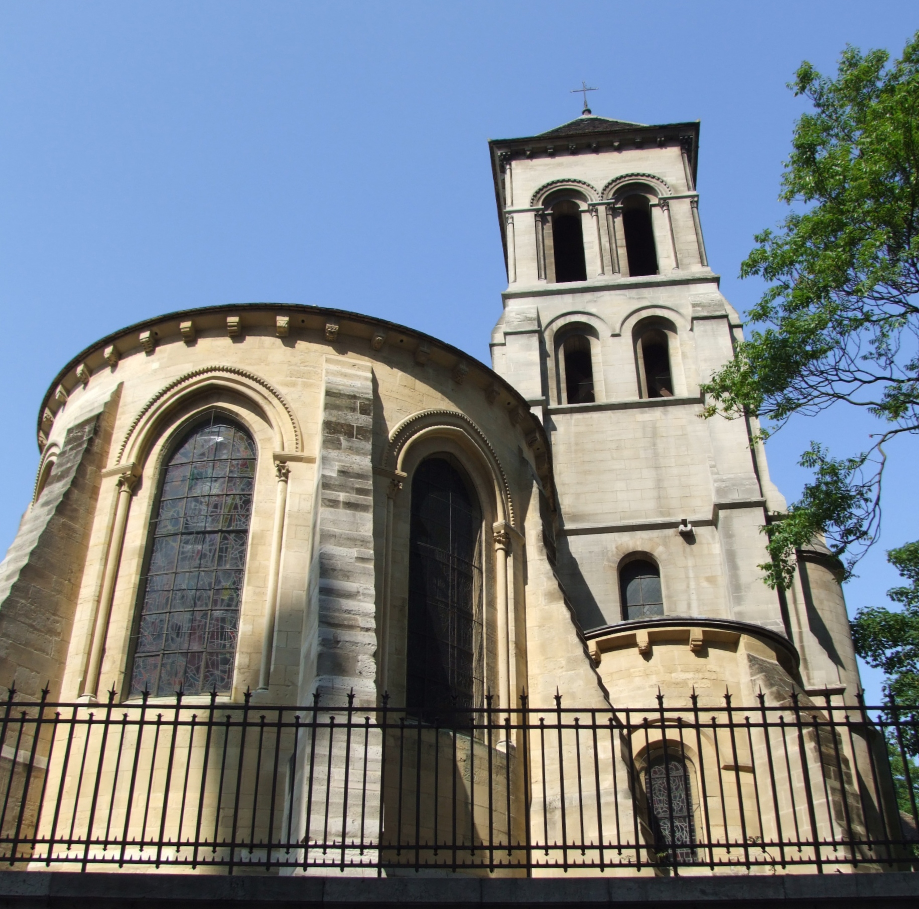 Montmartre, Paris, FRANCE